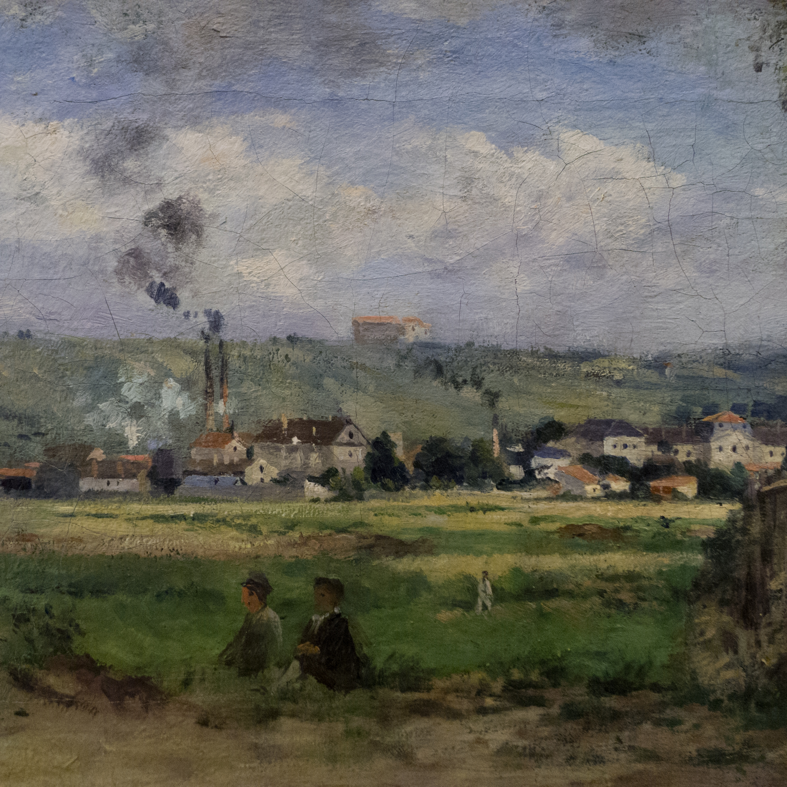 Les Usines de Nanterre, huile sur toile, Aix-les-Bains, musée Faure.